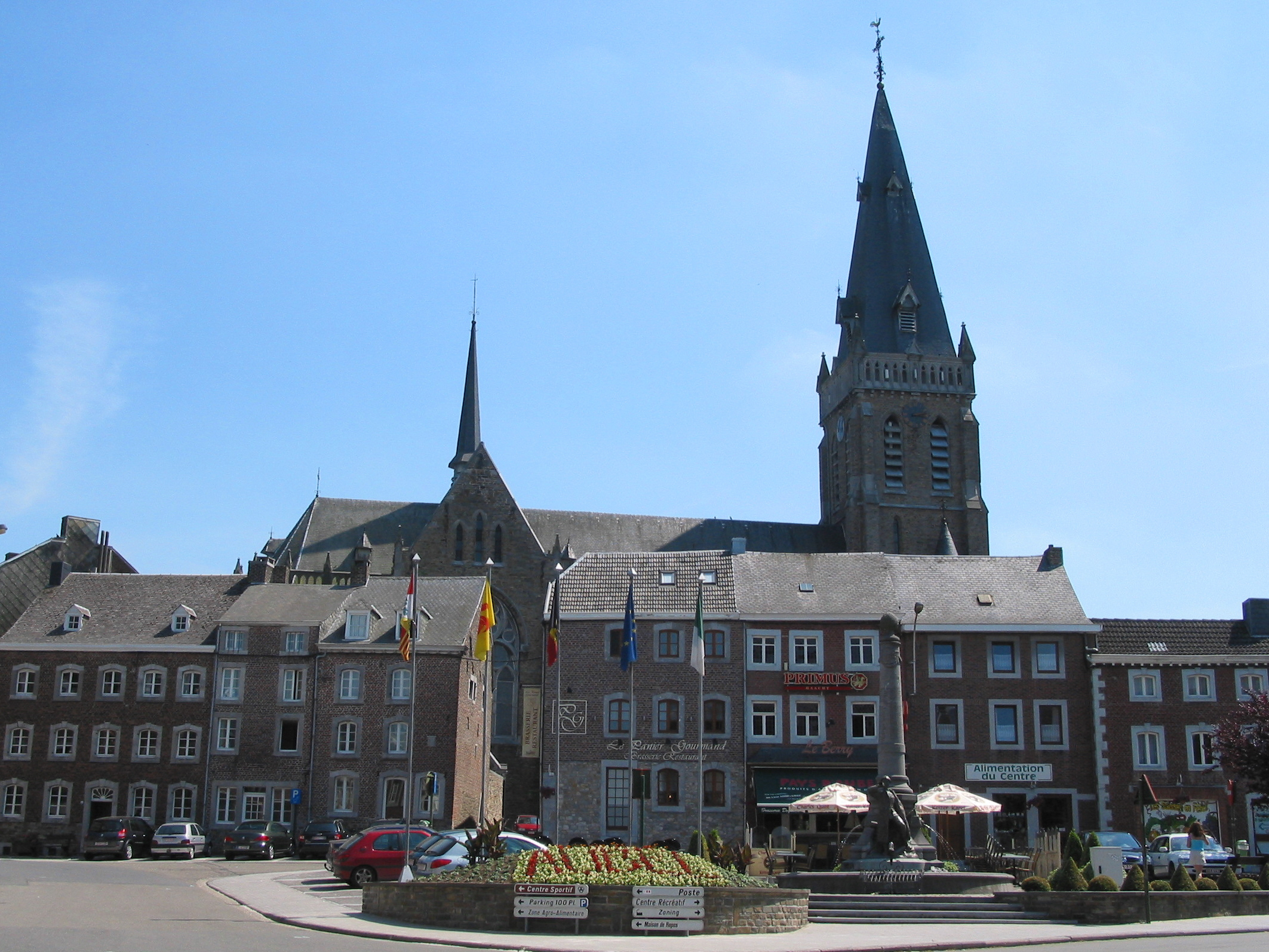 Aubel (Belgium) - Place Antoine Ernst - The monument to victims of both World Wars and the Church of St. Hubert.